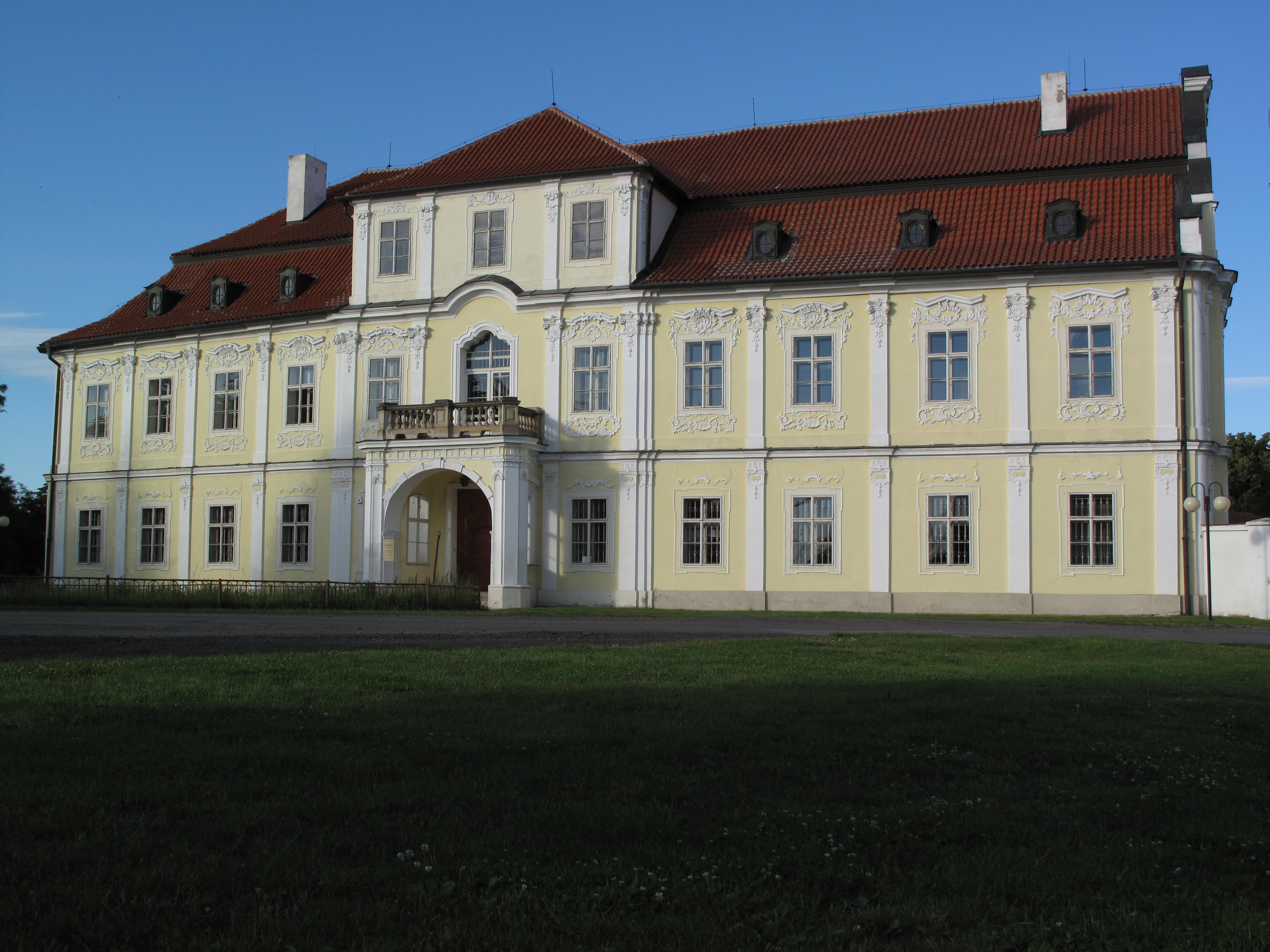 The chateau in Libočany, Czech Republic